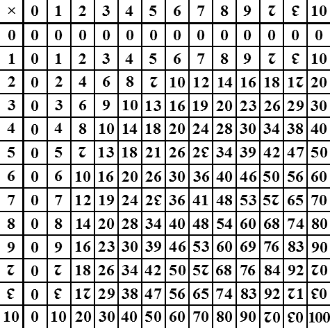 Dozenal (base 12) multiplication digit, using Pitman's turned 2 and turned 3 as 10 and 11.